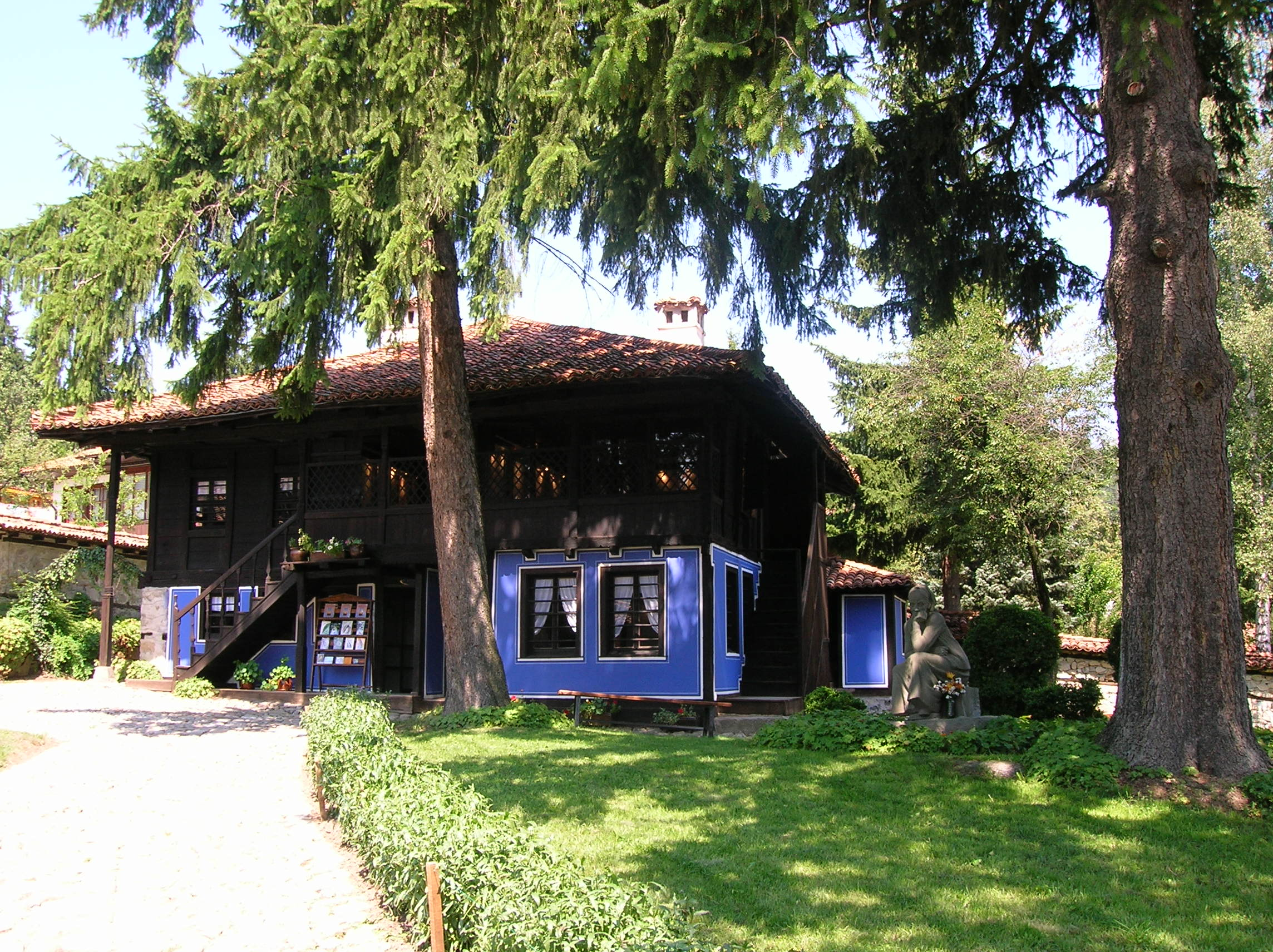 Debelyanov House, in Koprivshtitsa (Bulgaria).